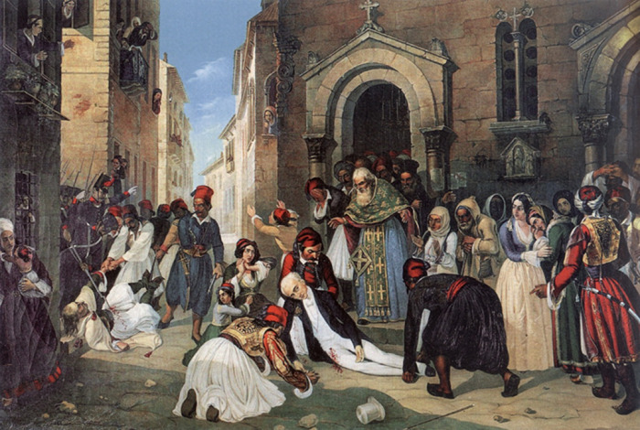 The Assassination of Kapodistrias